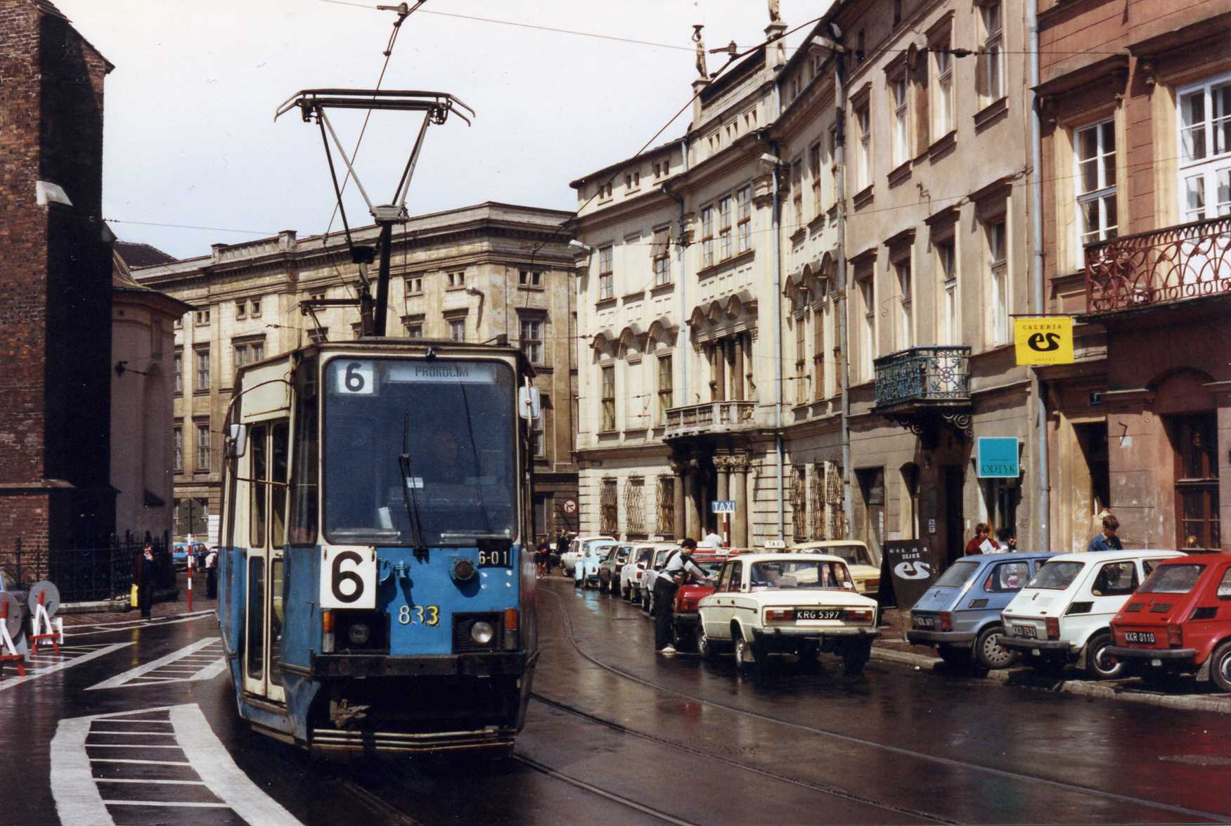 All trams in Poland were red, except where by special decree they were allowed to be blue in Wroclaw and Krakow and Green in Poznan. Car 833 is working between Salwaton and Prokocim.